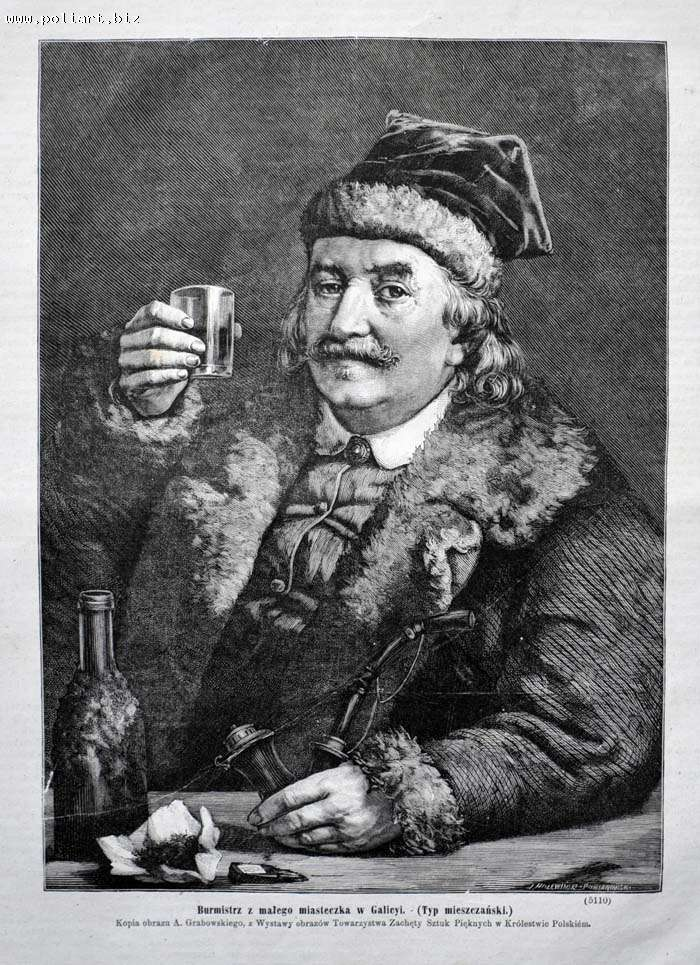 Józef Holewiński. "Burmistrz z małego miasteczka w Galicyi. (Typ mieszczański.)" Kopia obrazu A. Grabowskiego